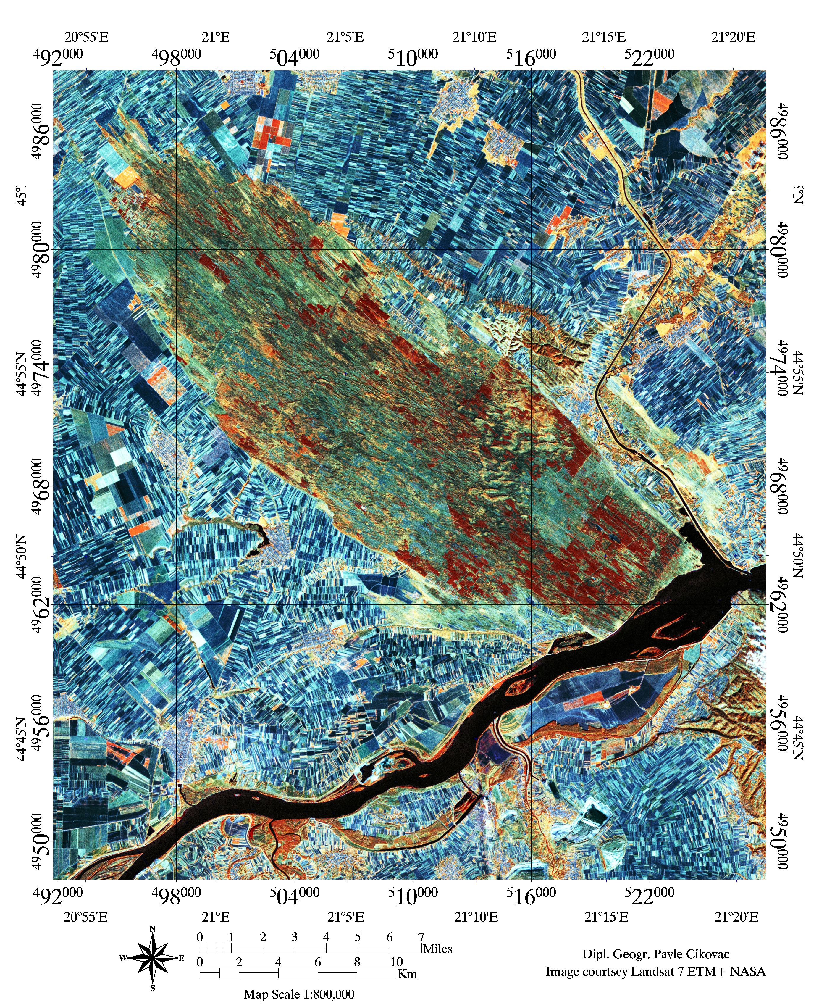 Capture of the Deliplatska pescara landscape in the north serbian province Vojvodina